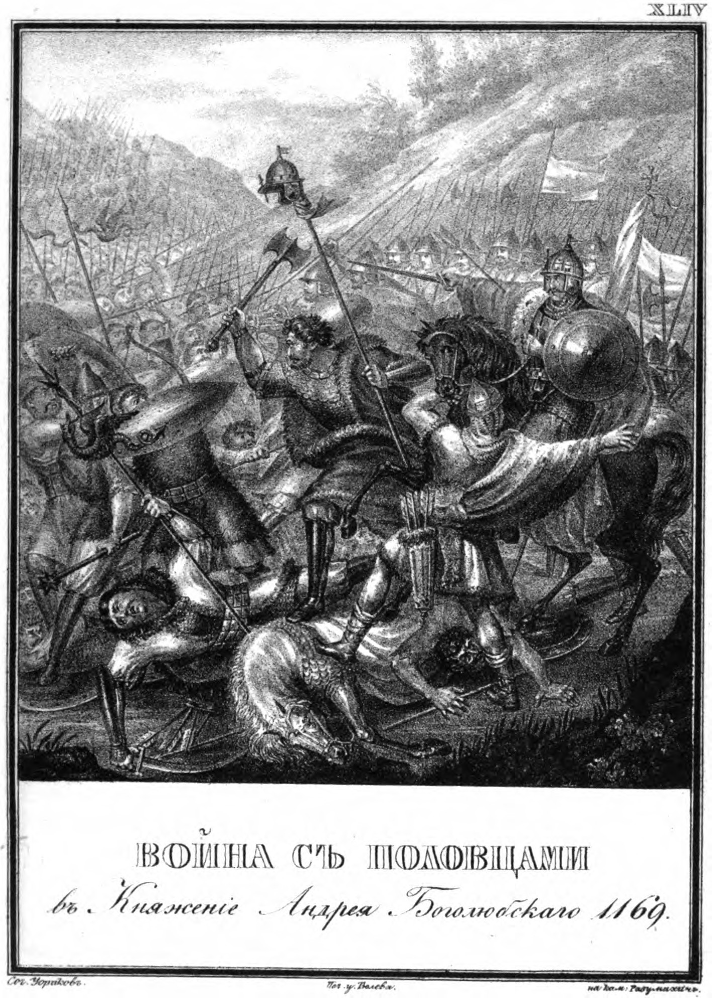 Illustration plate from the book Живописный Карамзин (1836), depicting the history of Russia.